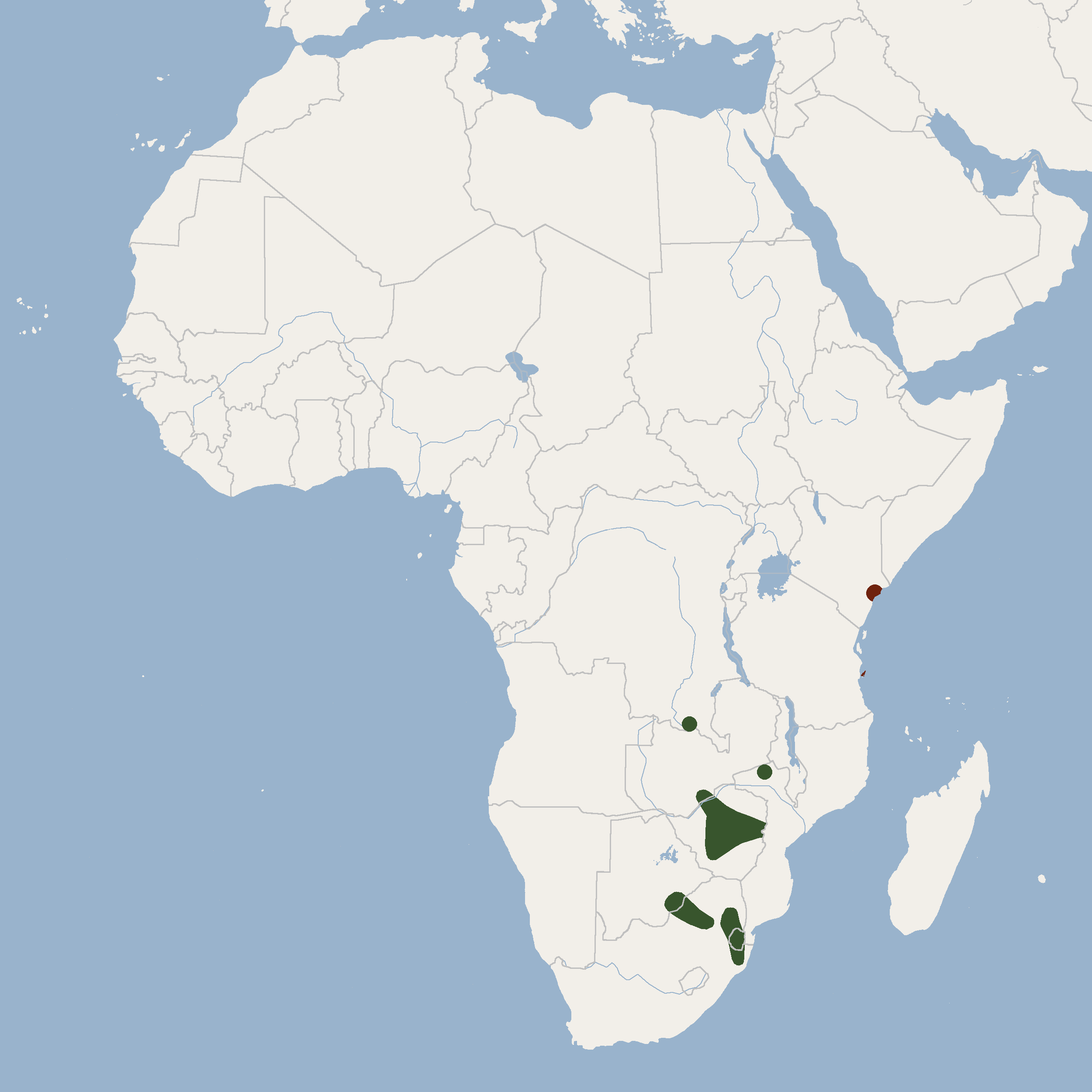 According to Happold & Happold, 2013. Subspecies range: C.p.percivali in brown, C.p.australis in green.